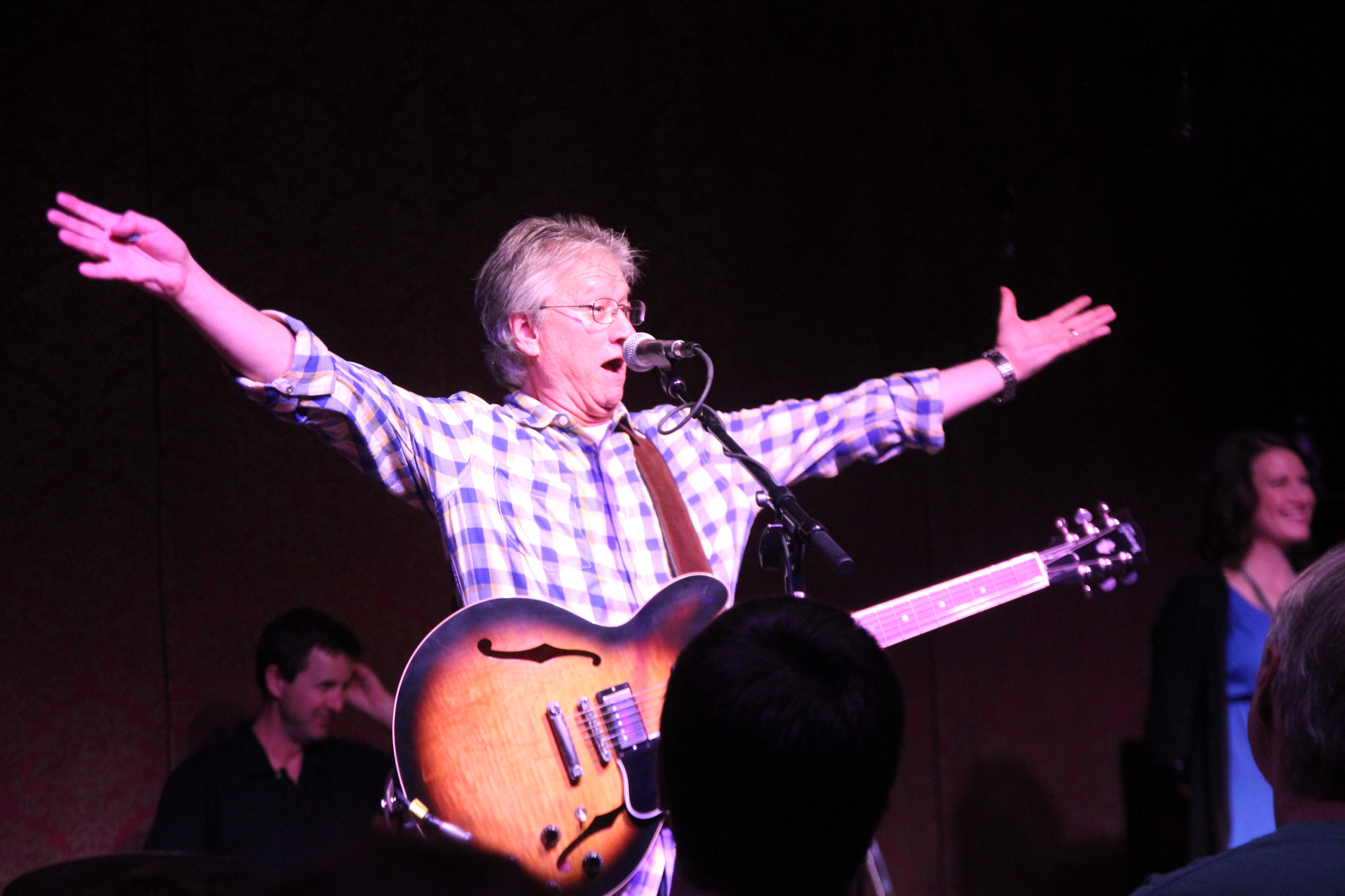 Richie Furay in concert 2015